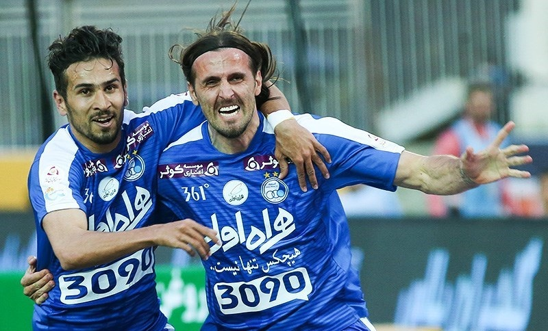 Pero Pejić and Sajjad Shahbazzadeh after Esteghlal's second goal against Saipa F.C.